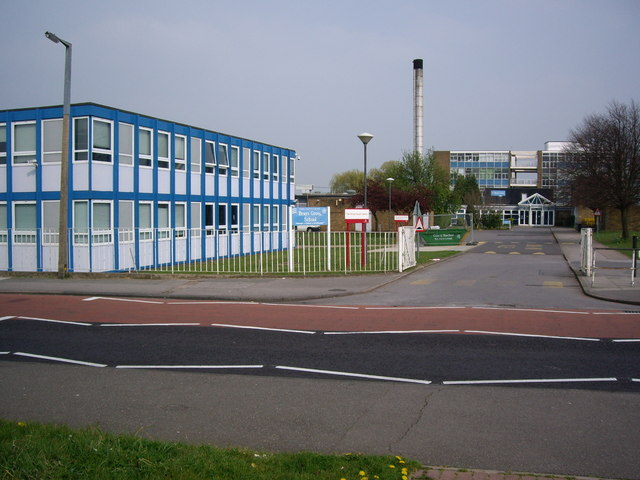 Brays Grove School Brays Grove is a mixed secondary school of non denomination.